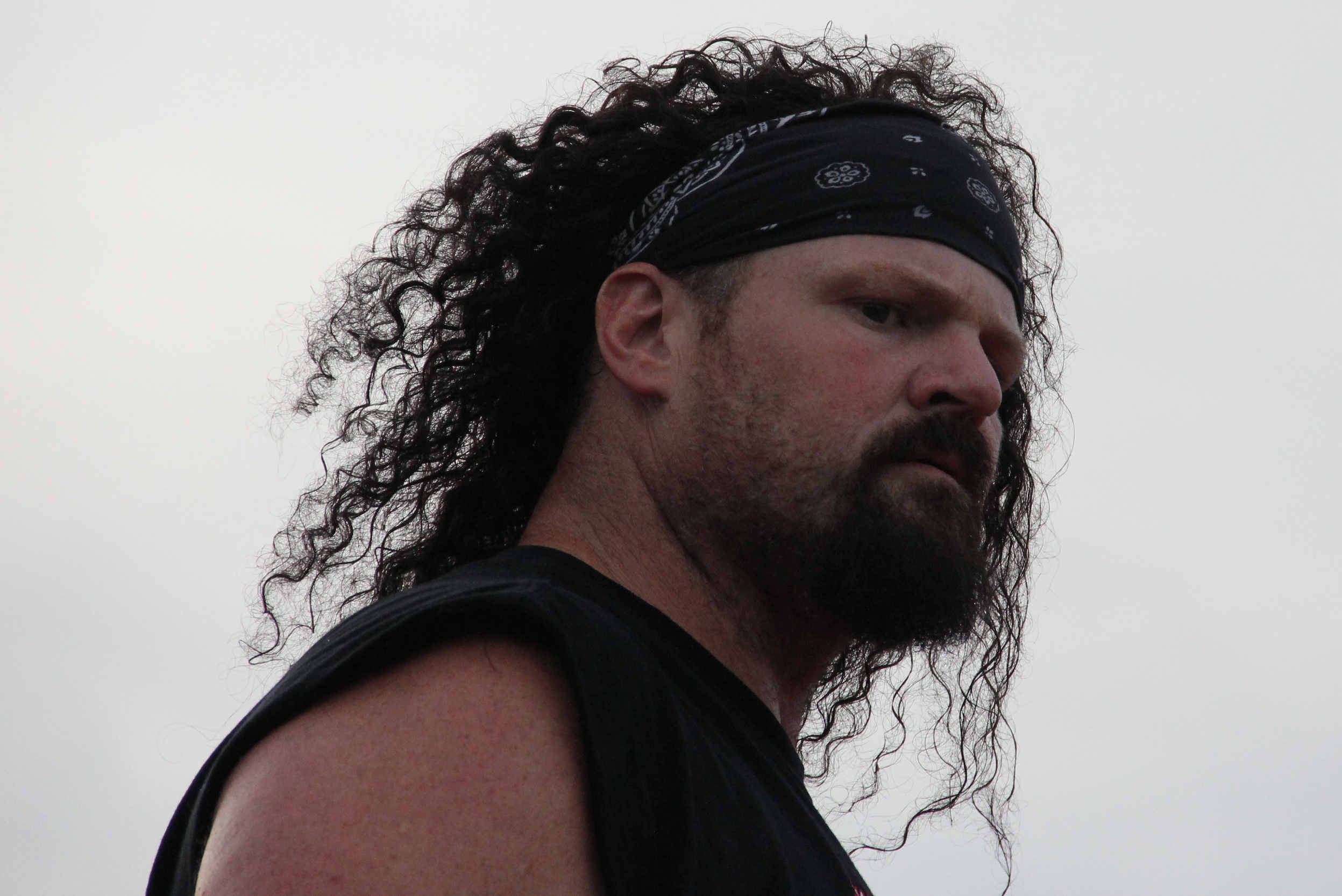 Rick Fuller at a professional wrestling event in June 2013. Cropped from original.